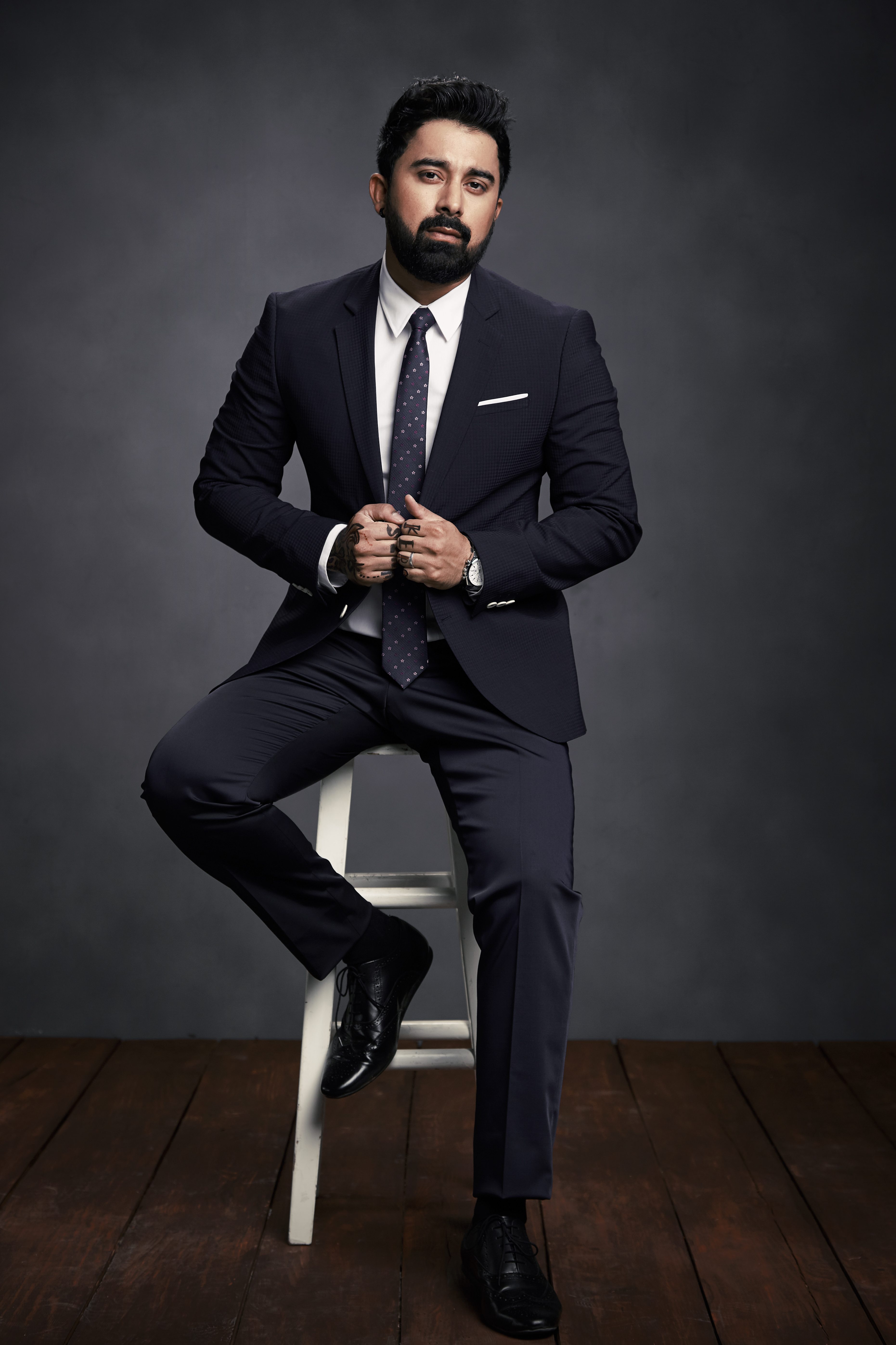 Rannvijay shooting for Whiskers brand.